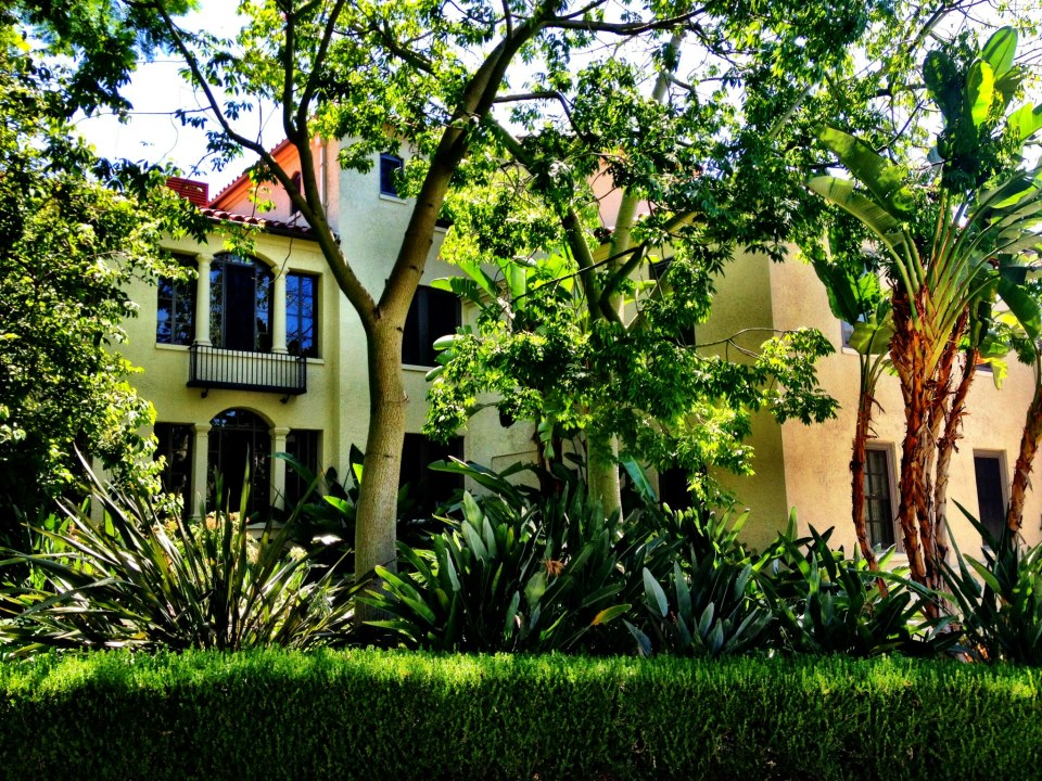 The gardens of Harwood Dorm at Pomona College, Claremont, CA